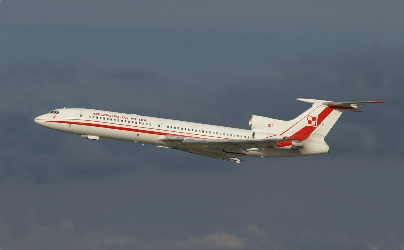 Polish Air Force Tupolev Tu-154 taking off from Kiev Borispil Airport on 5 June 2008